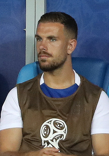 Jordan Henderson on the bench for England against Belgium at the 2018 FIFA World Cup